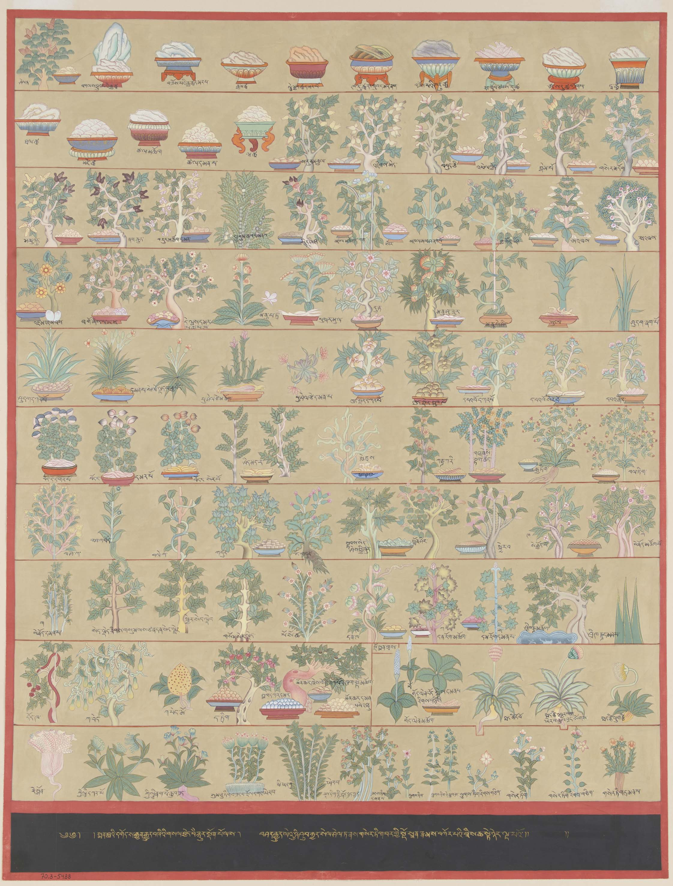 The Blue Beryl - herbal medications plate